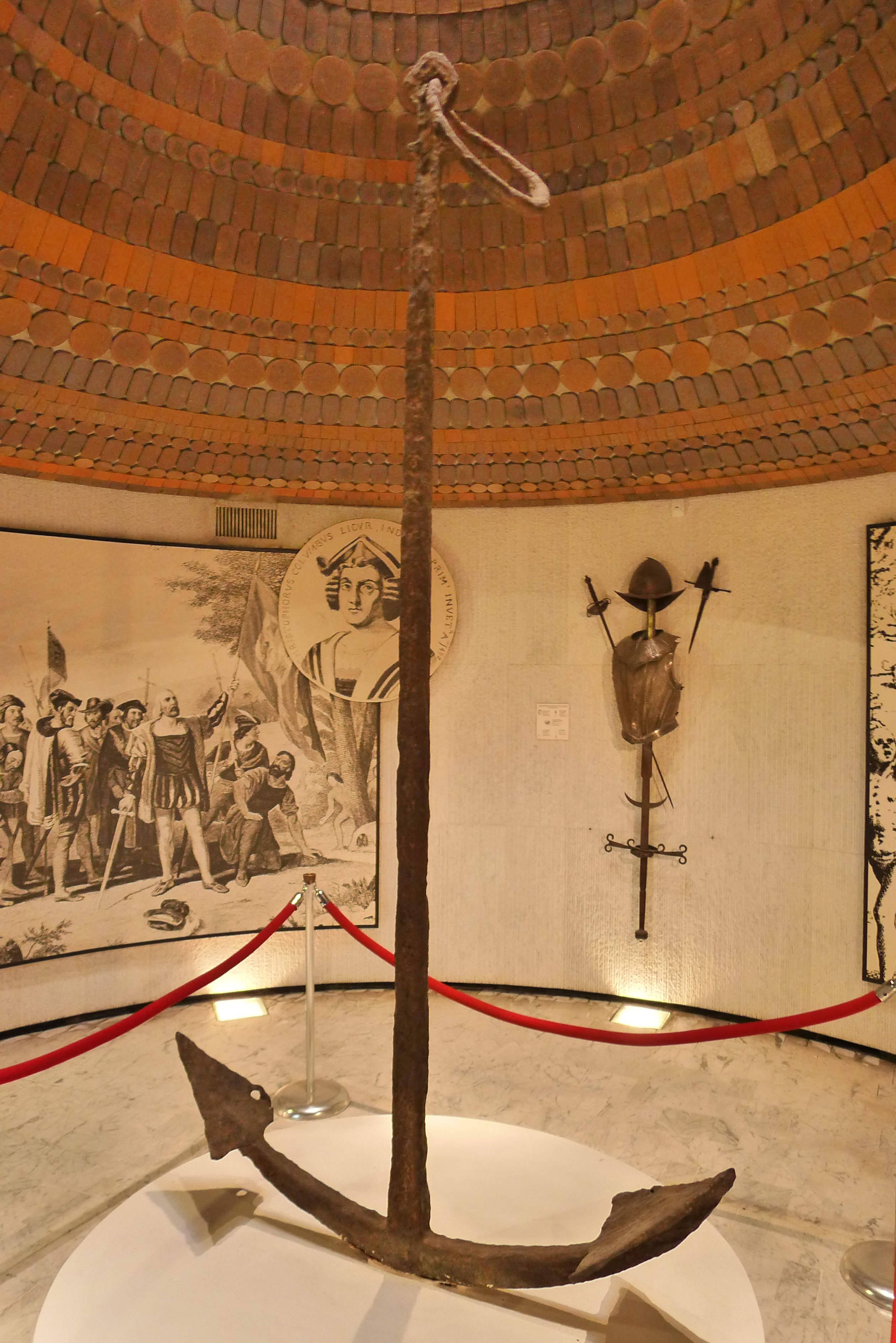 The anchor of Christopher Columbus' ship the Santa Maria, Musee Pantheon National in Haiti.